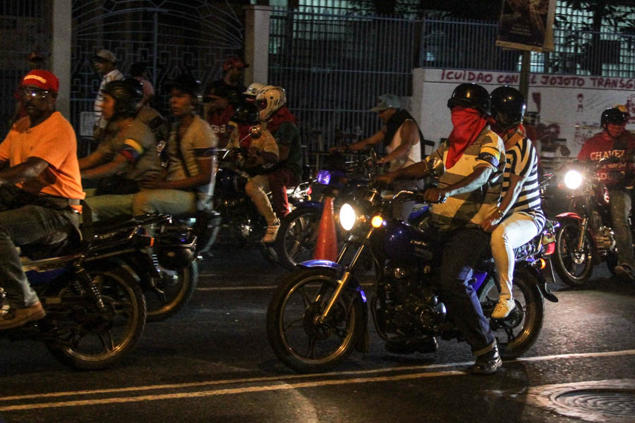 Masked Venezuelan motorcyclists like these are often associated with colectivos.